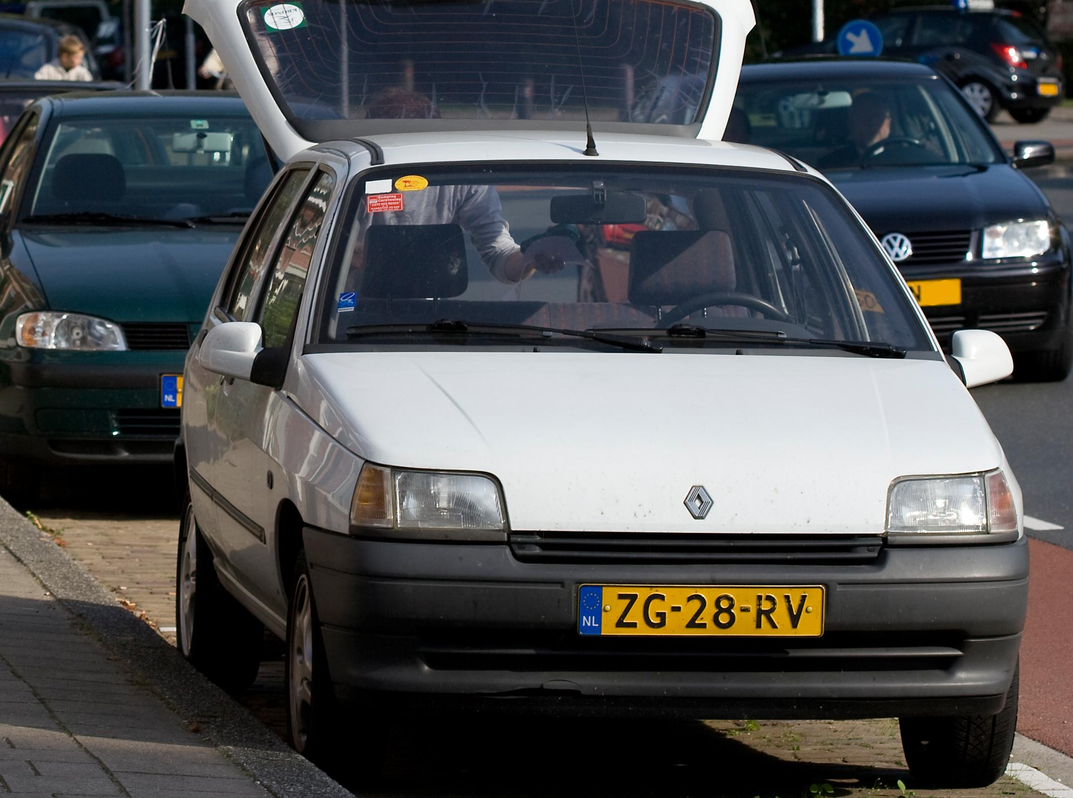 Dutch Renault Clio MK1 ph1